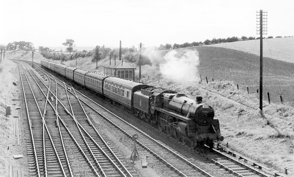 Bournemouth West to Derby express at Standish Junction. View southward, towards Bristol, Bath and Bournemouth, also Swindon. This is the important junction between the ex-Great Western main line from Cheltenham and Birmingham/Gloucester and South Wales to Swindon etc. - two tracks on the left, with the ex-Midland main line Birmingham - Gloucester - Bristol (also Bath and Bournemouth) - two tracks on the right. The Up Summer Saturday holiday express is headed by a (newly introduced) BR Standard Class 5MT 4-6-0 No. 73003; the stock seems to be ex-GWR. Standish Junction Box is seen behind the train. (Note the 'C' board in the foreground, signifying the Commencement of a temporary speed-restriction on the Down Midland line).